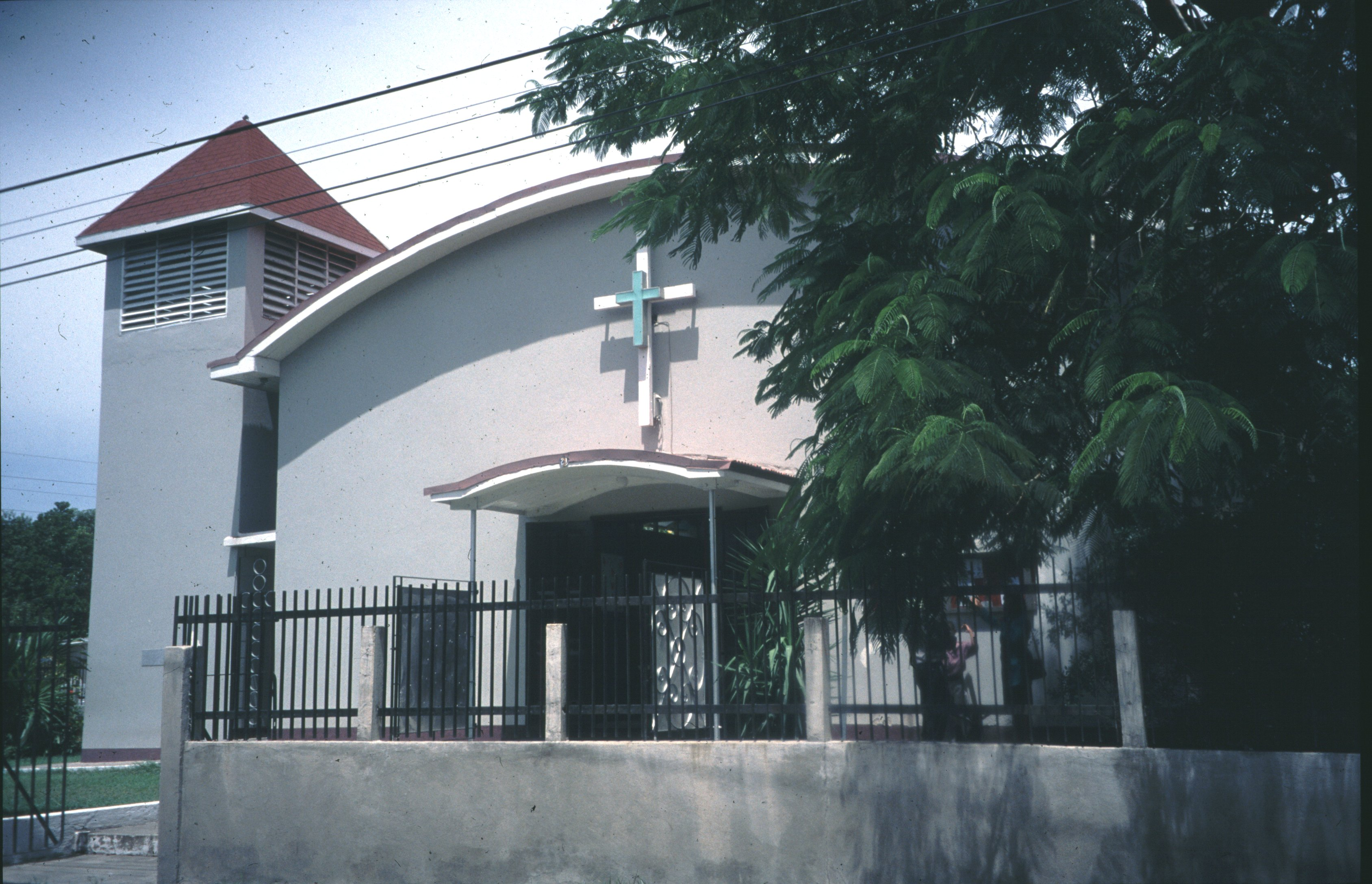 The front of Trinity Moravian church, Kingston, Jamaica in 2002.